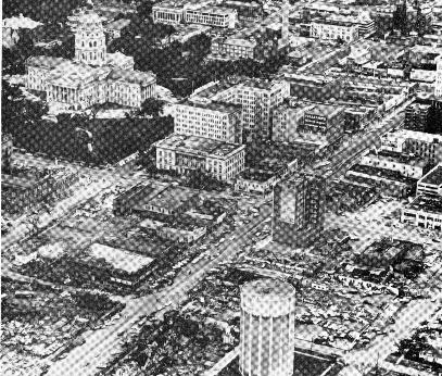 Damage from the F5 tornado in the southwestern part of Topeka, Kansas on 8 June 1966.